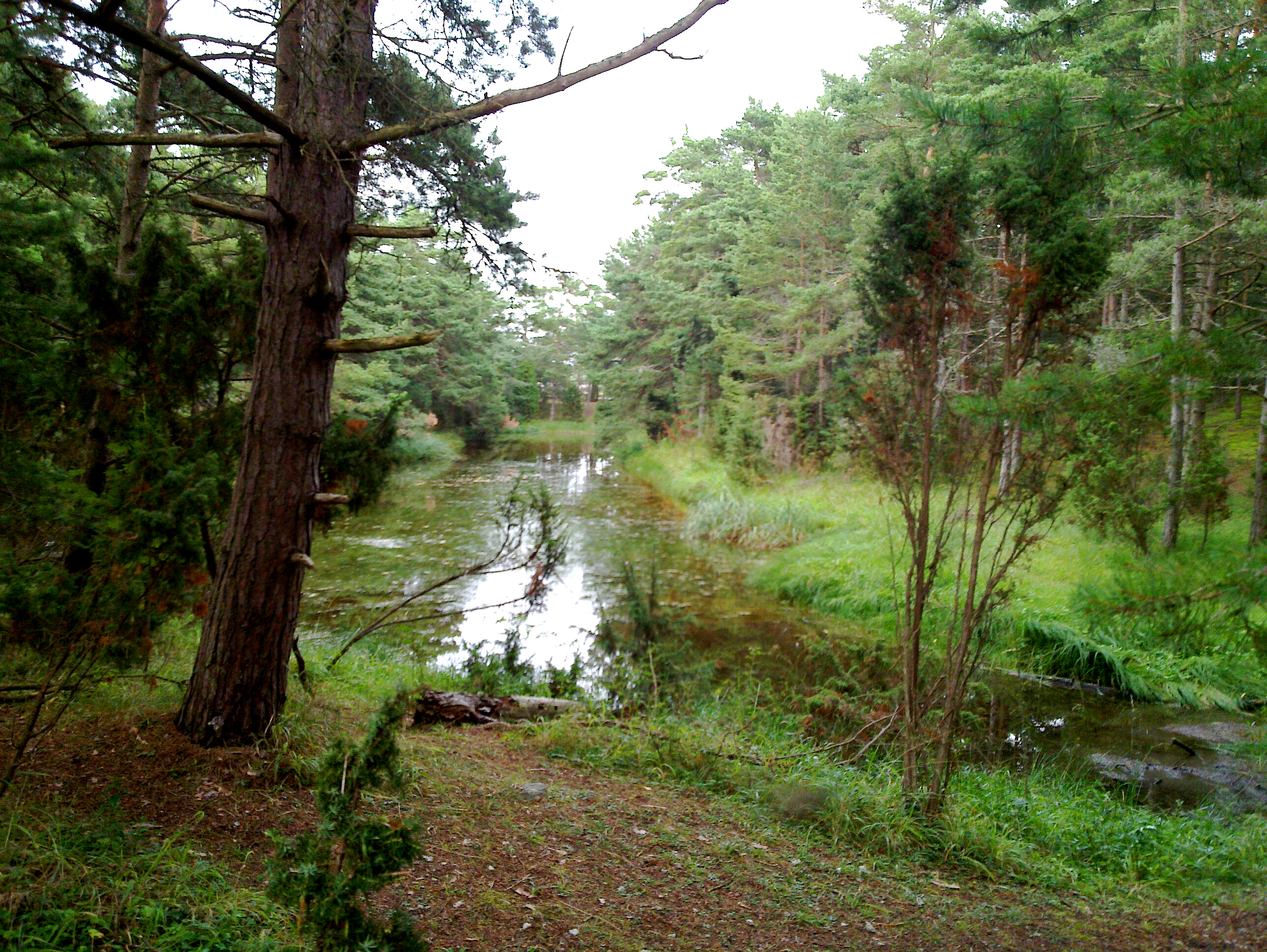 Gamle hamn, a former port from the Viking times, located on Fårö near Gotland, Sweden